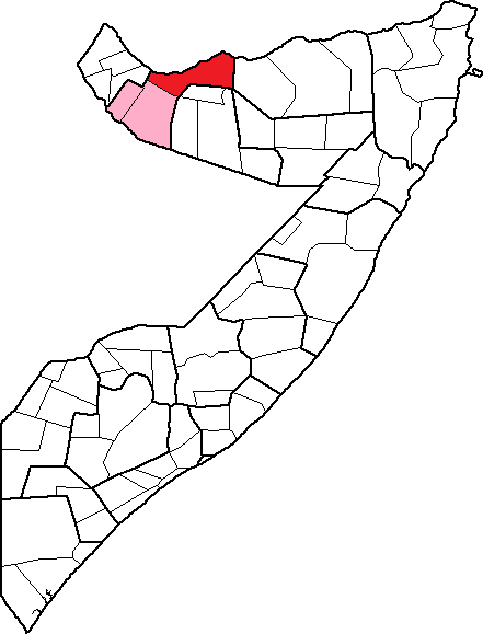 Location of the Berbera district in the Woqooyi Galbeed region, Somalia. Boundaries reflect those endorsed by the Republic of Somalia in 1986.